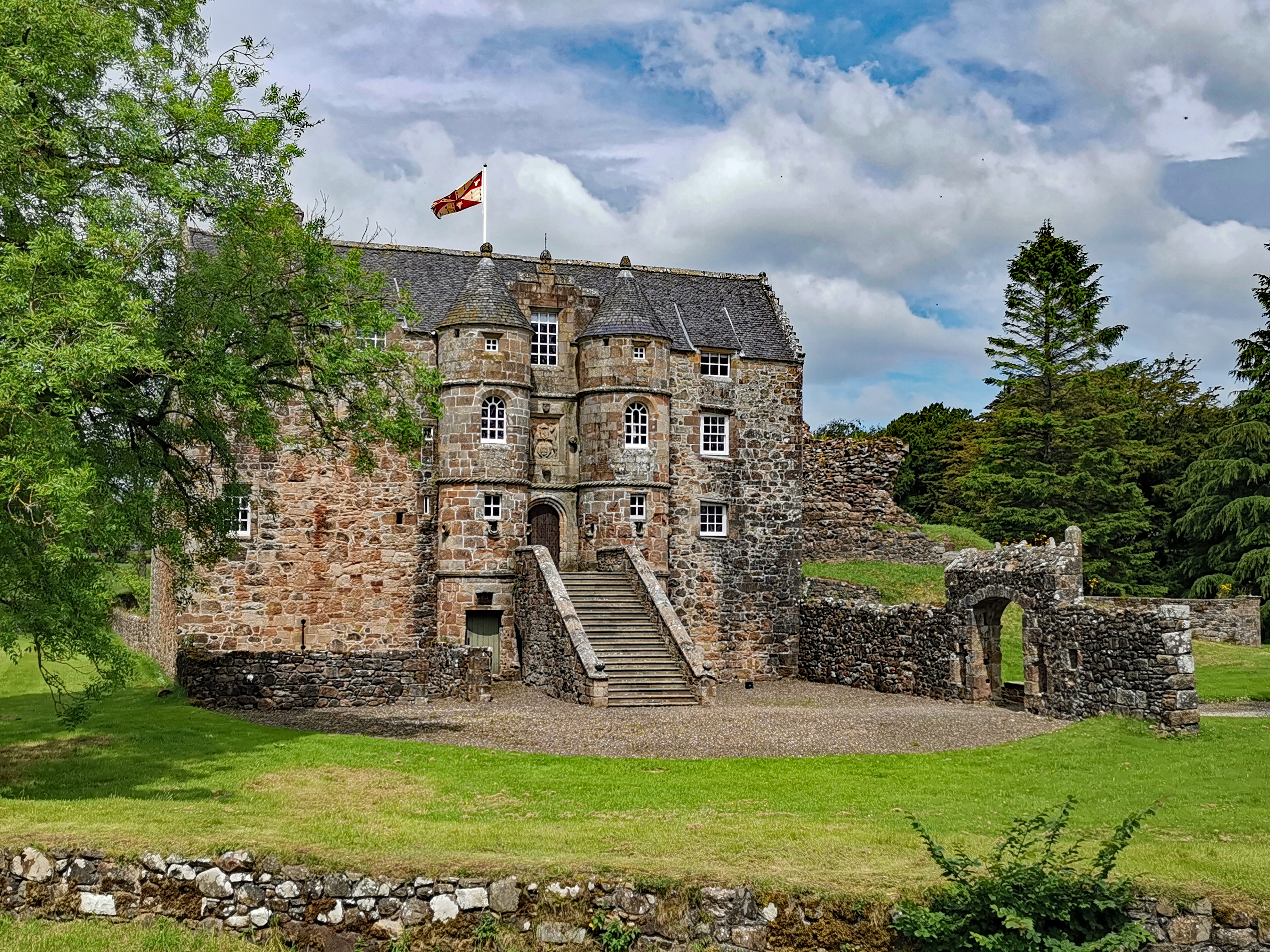 Rowallan Castle (Ayrshire, Scotland, UK)